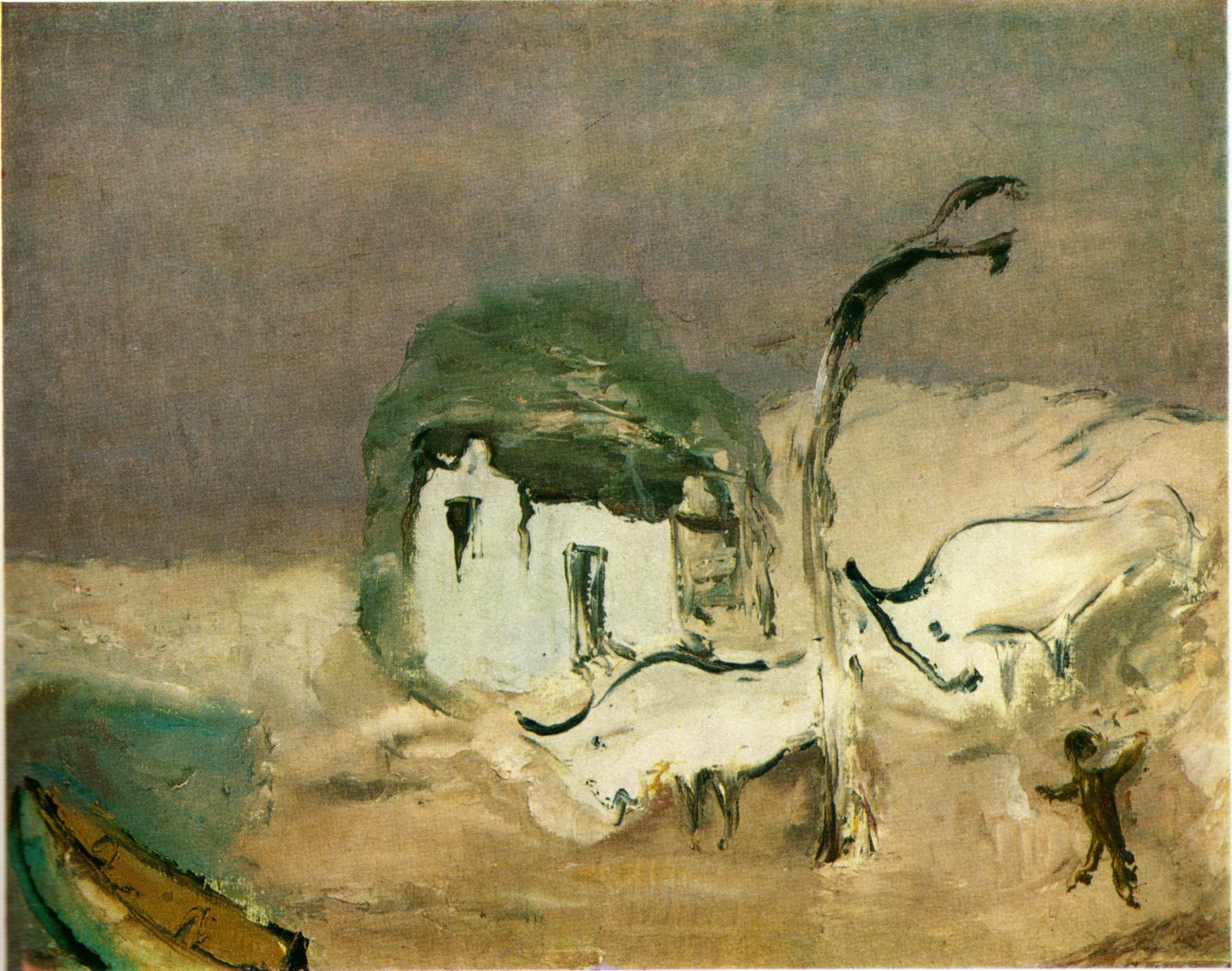 Aleksandr Drevin. Bulls. 1931. Canvas, oil. 64,4x82. Russian Museum: Ж 8578